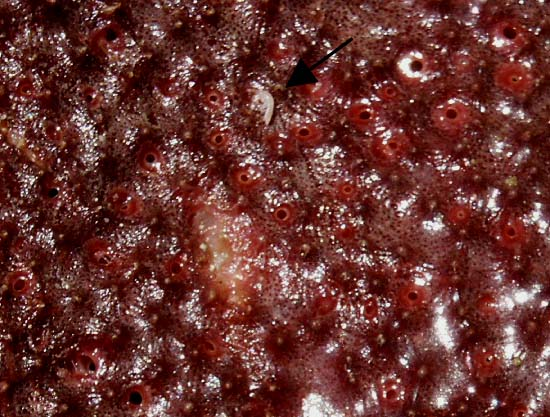 A commensal amphipod emerges from a Stinking Vase Sponge (Ircinia campana) collected during the first dive of the Islands in the Stream 2002 mission at the St. Augustine Scarp.